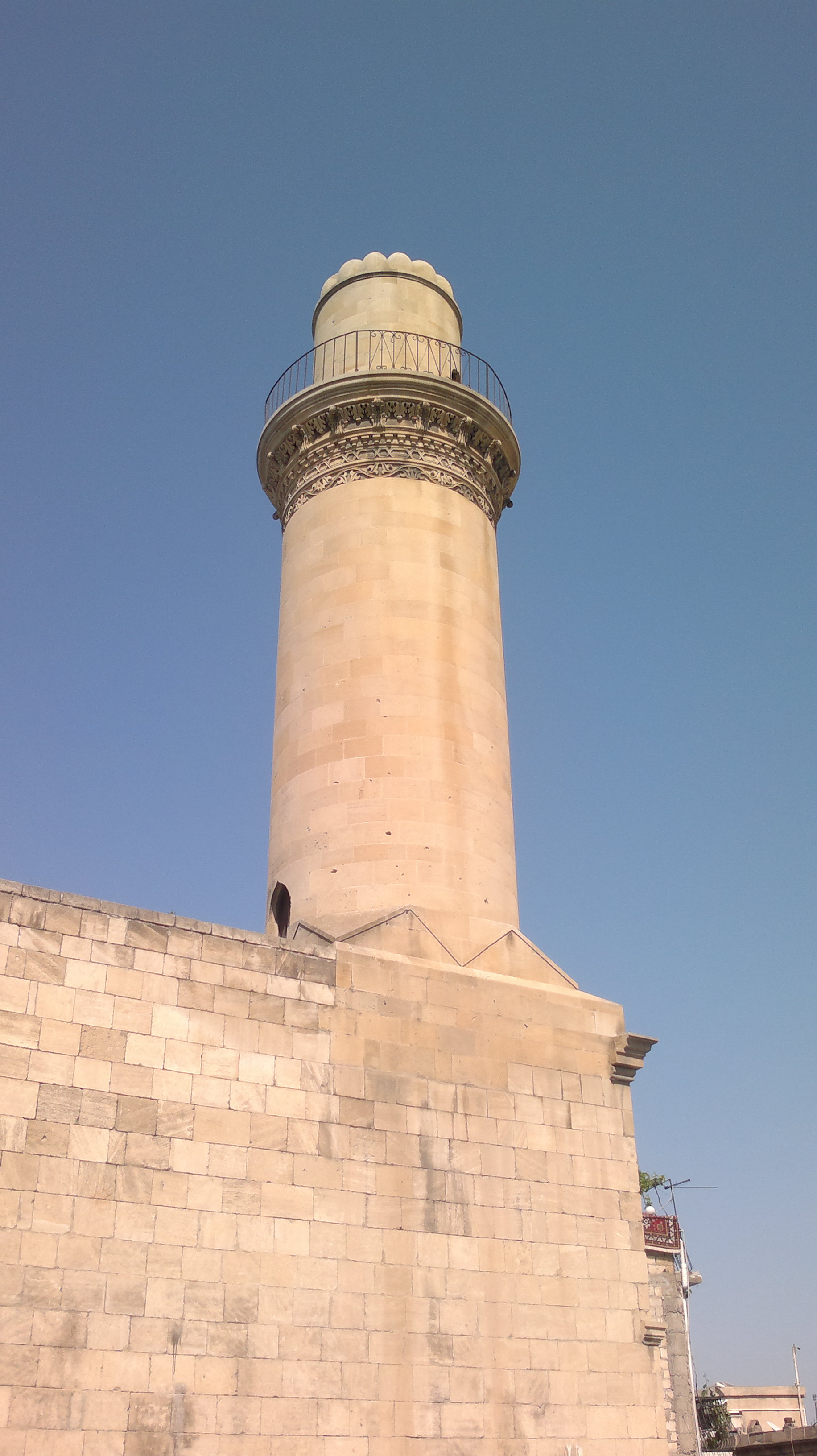 Beglar Mosque in Baku, Azerbaijan. Built in 1895.